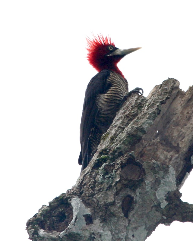 Robust Woodpecker Campephilus robustus Location : Iguasu Falls, Argentina 4th. April 2006 Distribution